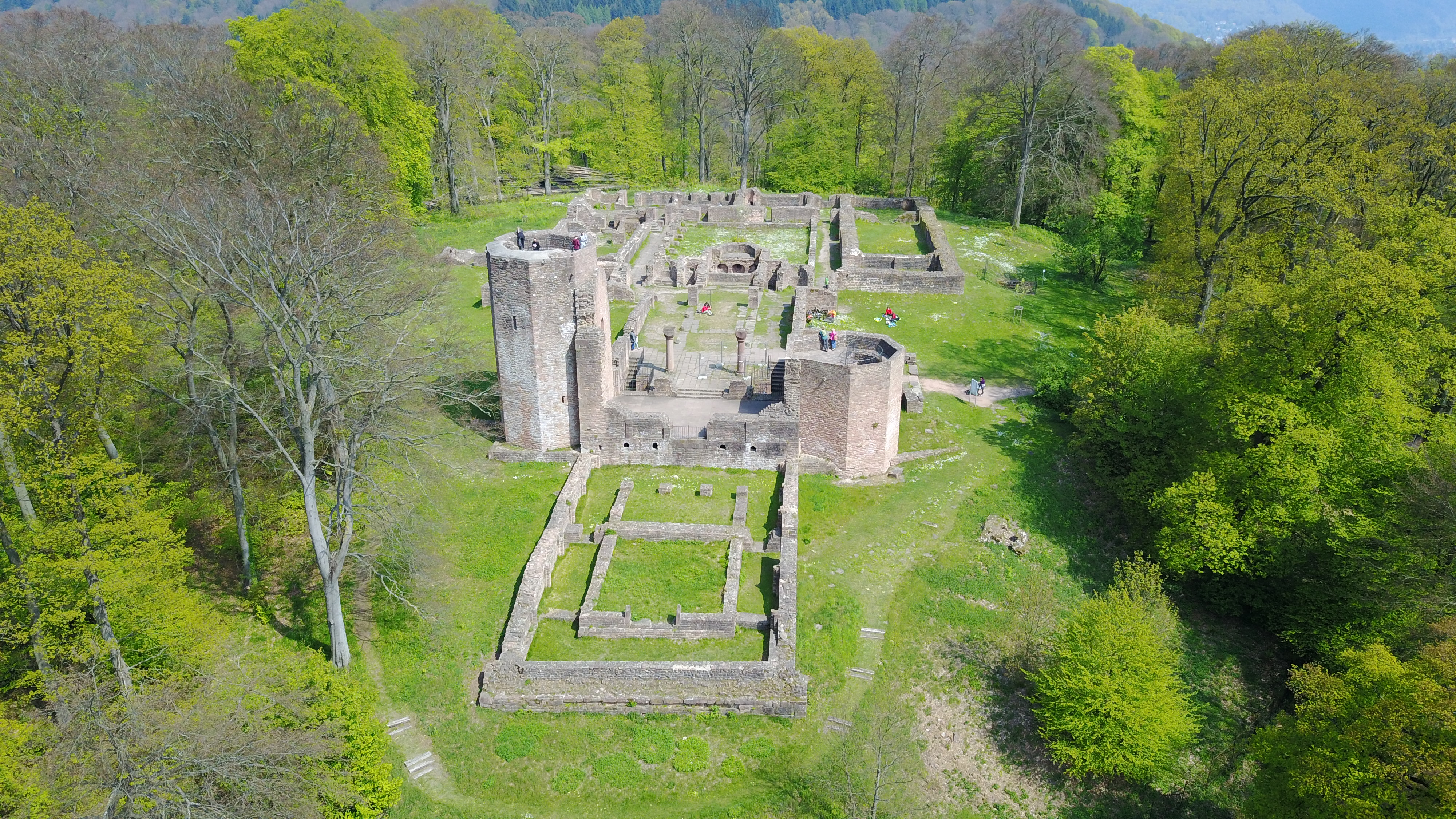 Heiligenberg Michaelskloster von Westen Luftaufnahme